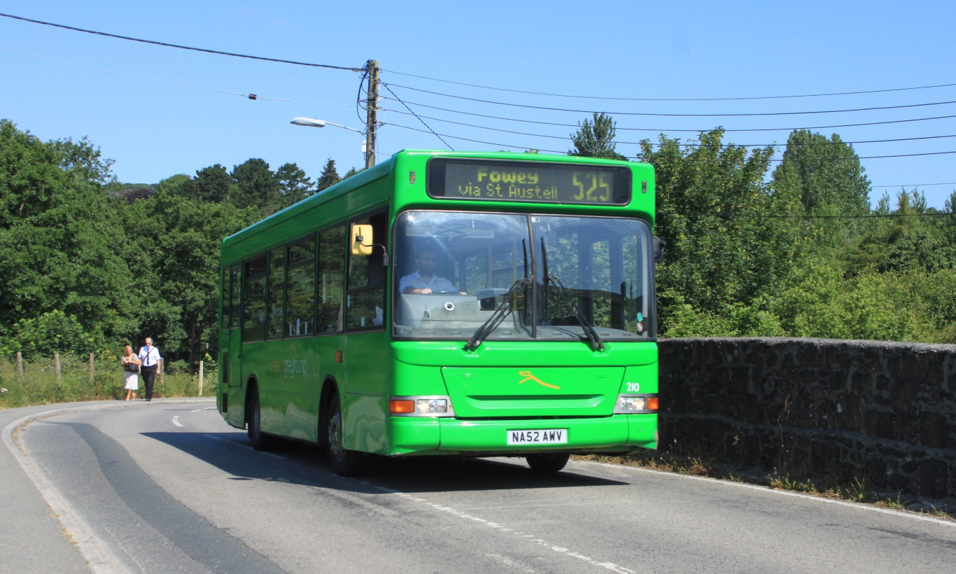 Western Greyhound first started to buy Plaxton Pointers late in 2013 when they we restocking following the arson attack on their depot. Number 210 (registration NA52AWV) was new to Go Wear Buses in 2002 but can now be found on route 525 from Mevagissy to Fowey in Cornwall - it was crossing over the railway line near Par station when this picture was taken.